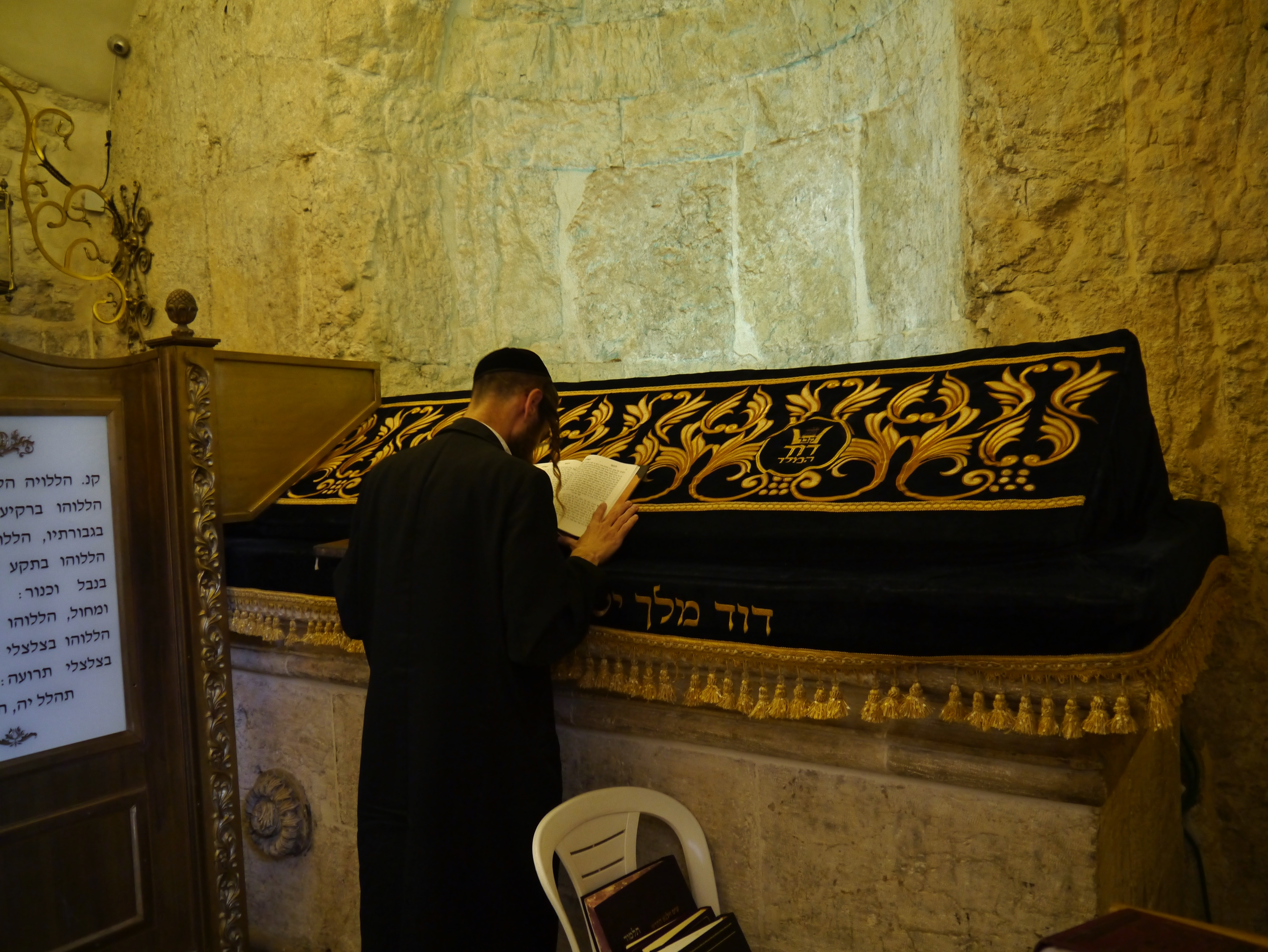 Tomb of King David, Jerusalem, Israel